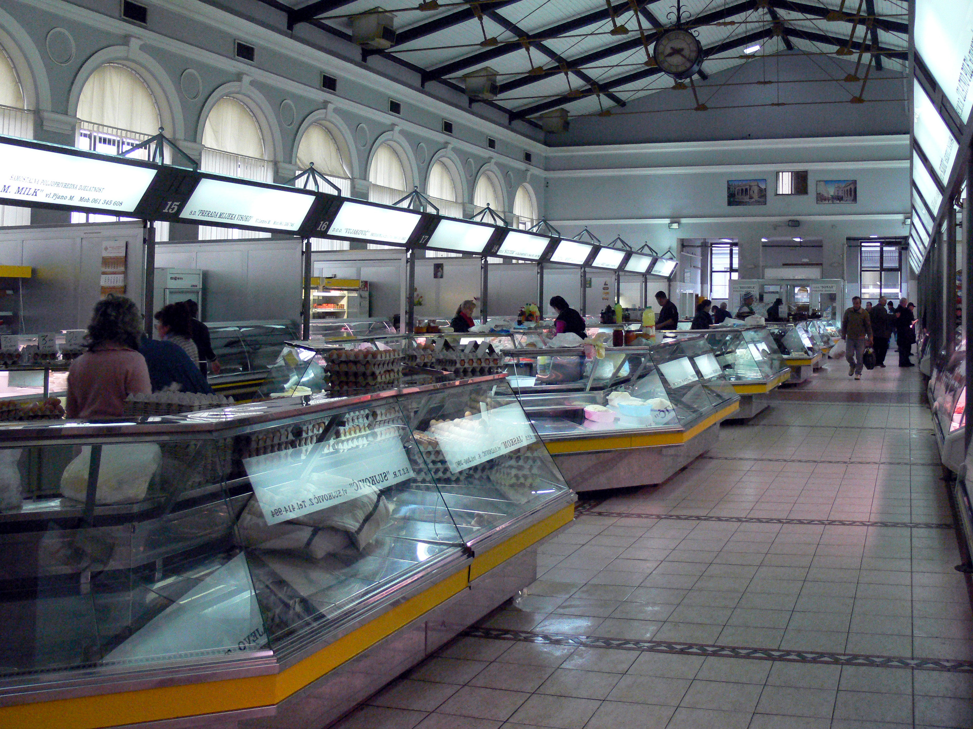 The covered market in Sarajevo.